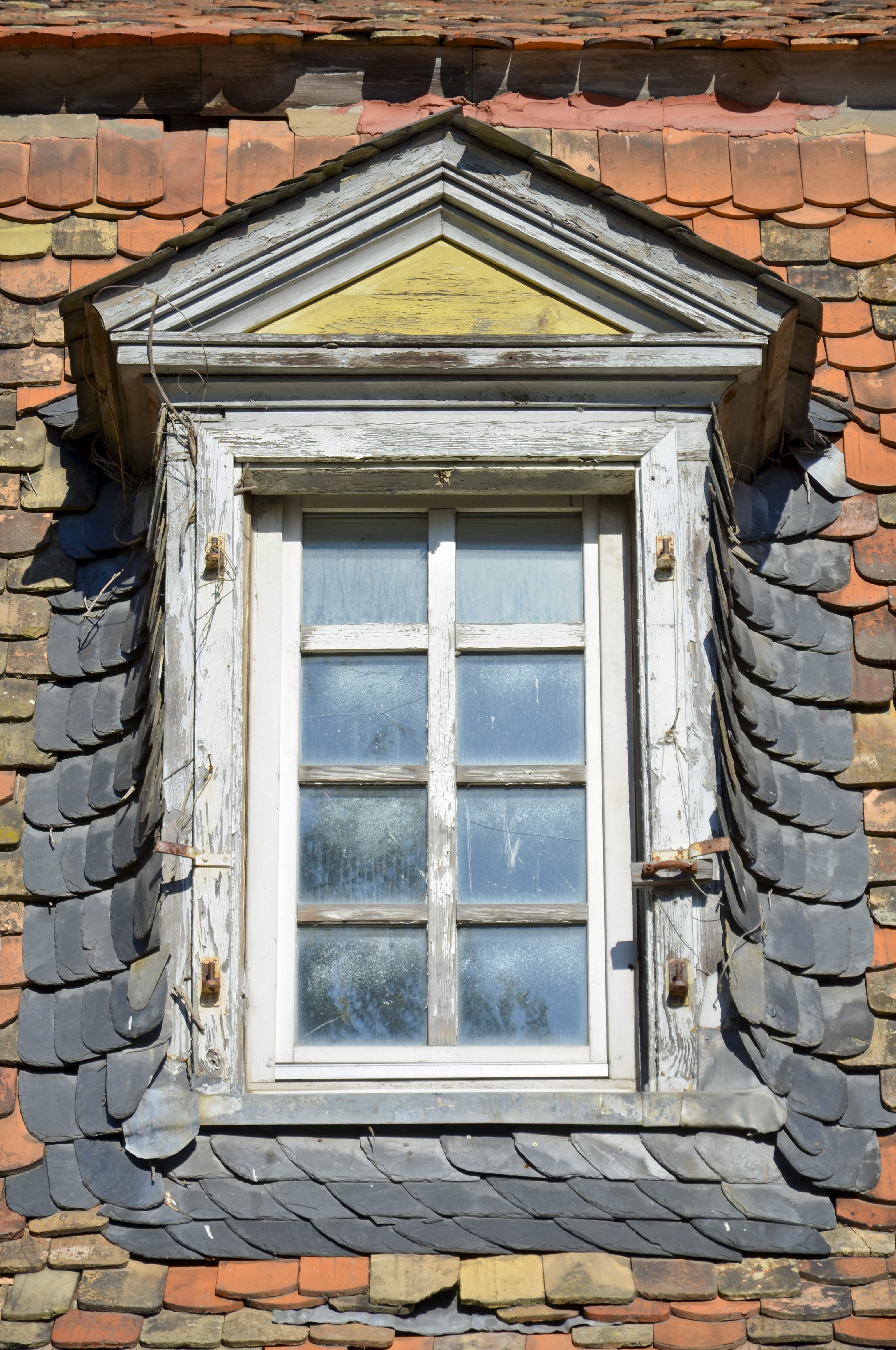 Hunting lodge Moenchbruch, Hesse, Germany.